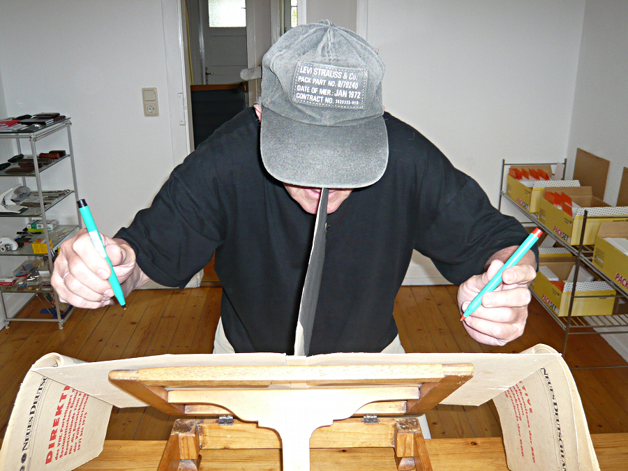 Thomas Körner, reading the the GDR newspaper Neues Deutschland. From: The country of all evils (orig. title in German)